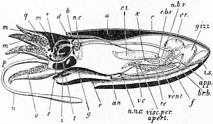 Cephalopoda Fig. 26.—Vertical median antero-posterior section of Sepia officinalis from Encyclopædia Britannica 1911